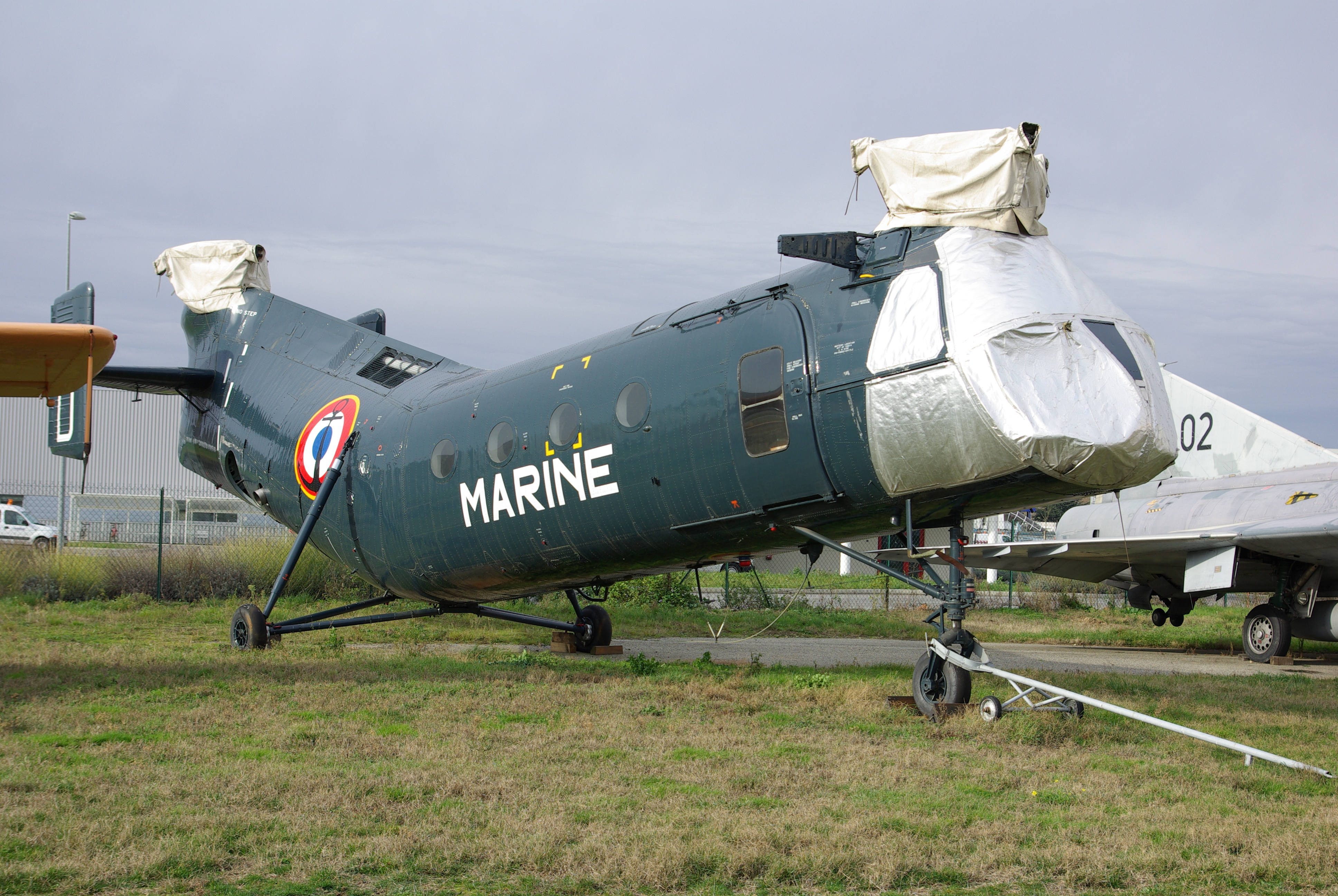 A Piasecki H-21 being restaured by the musée des ailes anciennes (Toulouse, France)